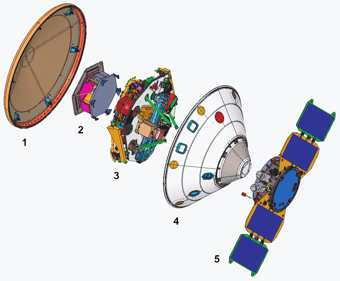 Labelled illustration of the Phoenix spacecraft. Heat shield Component deck Lander Back shell Cruise stage